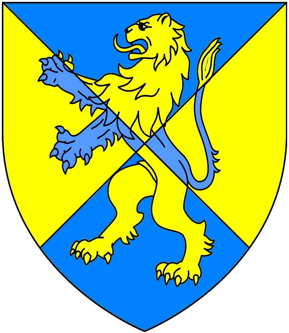 Arms of Gould of Downes, Crediton, Devon: Per saltire azure and or a lion rampant counterchanged (Vivian, Lt.Col. J.L., (Ed.) The Visitation of the County of Devon: Comprising the Heralds' Visitations of 1531, 1564 & 1620, Exeter, 1895, p.418)